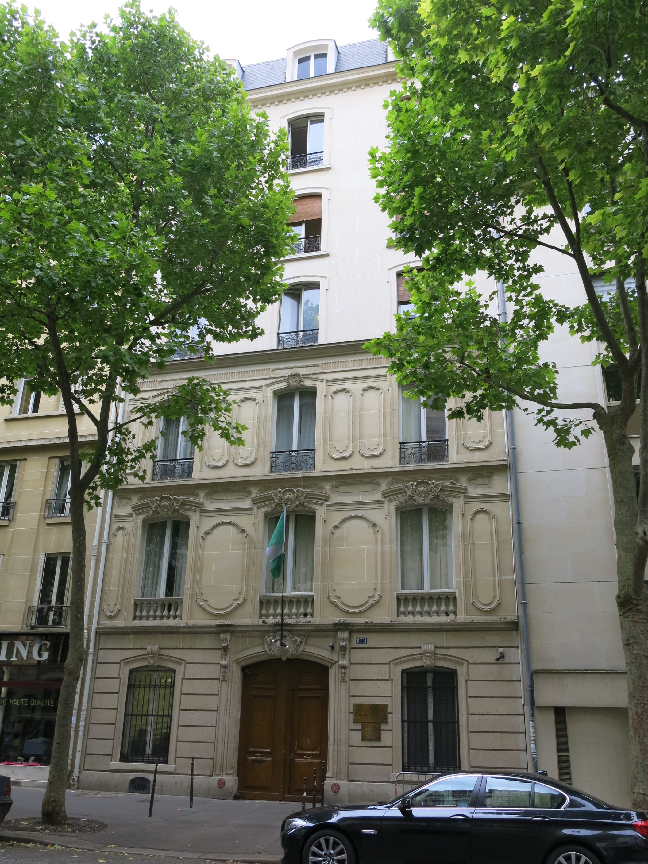 Building 173 avenue Victor Hugo, Paris 16th arrond. (France). In 2015, it is the Nigerian embassy.